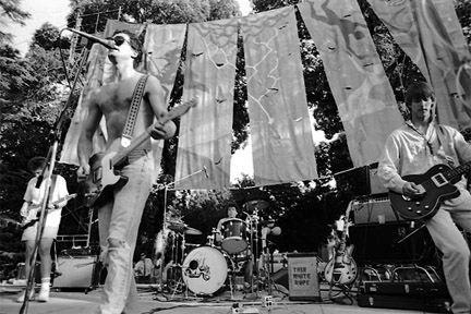 Thin White Rope, UC Davis, CA Whole Earth Festival